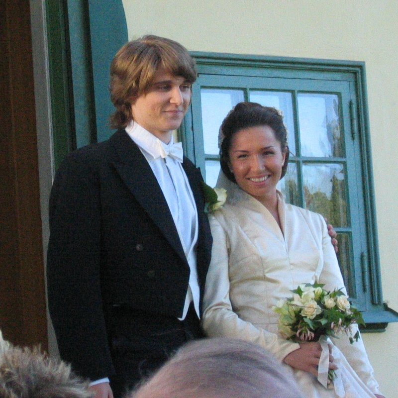 Anastasios Soulis and Rebecca Scheja acting wedded couple in the film Bröllopsfotografen.